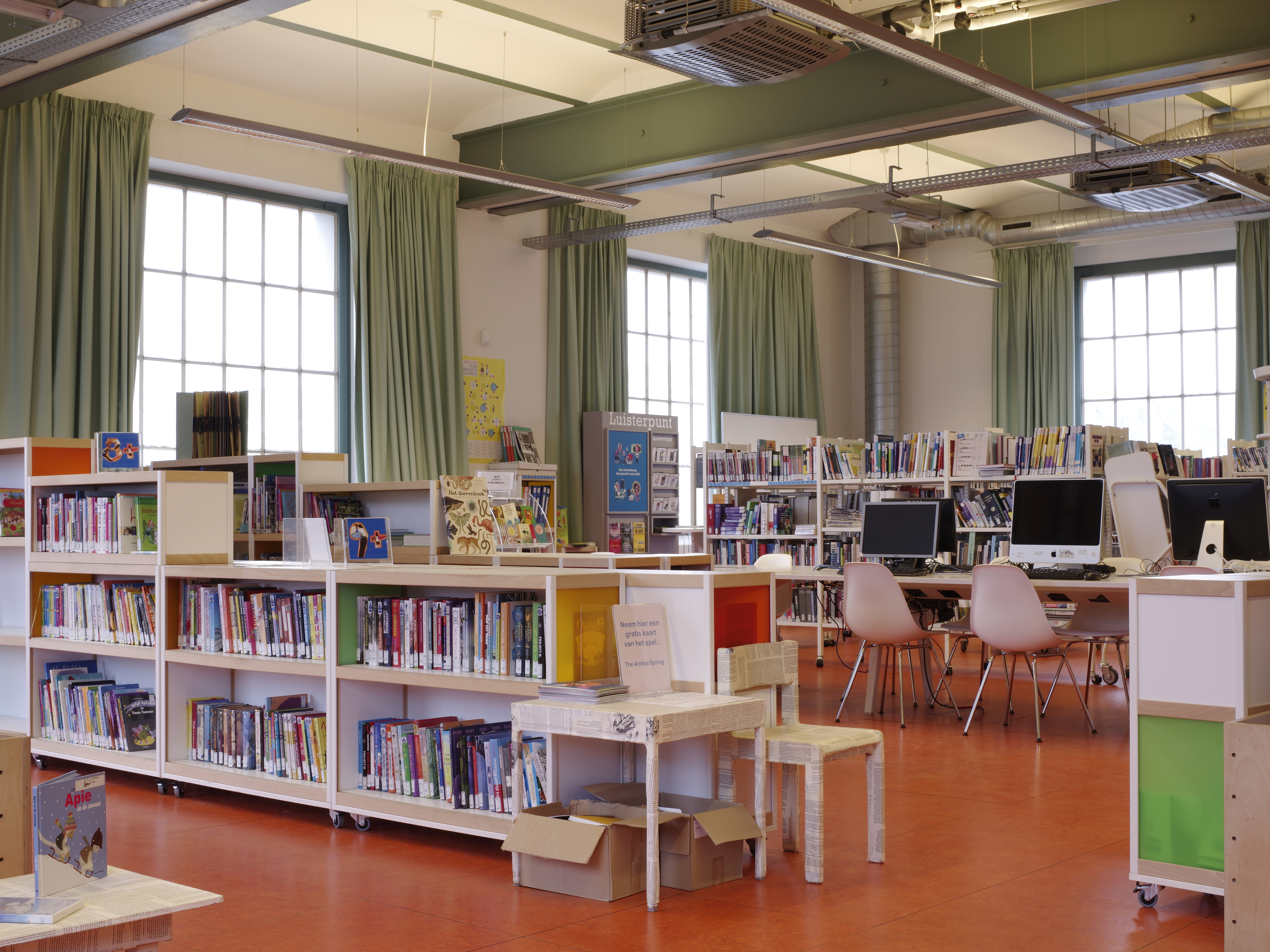 BLI:B, public library Vorst - Forest, at avenue Van Volxem 364 in 1190 Brussels (Forest).